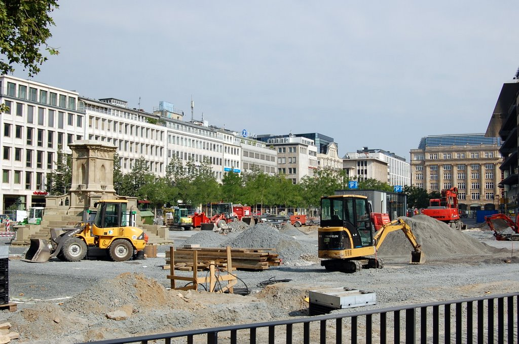 Constructions on Rossmarkt, Frankfurt/Main, Germany